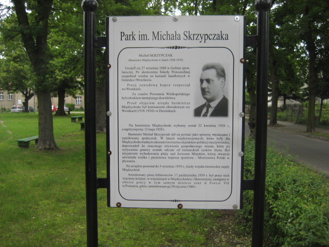 Tablica upamiętniająca Michała Skrzypczaka w Międzychodzie